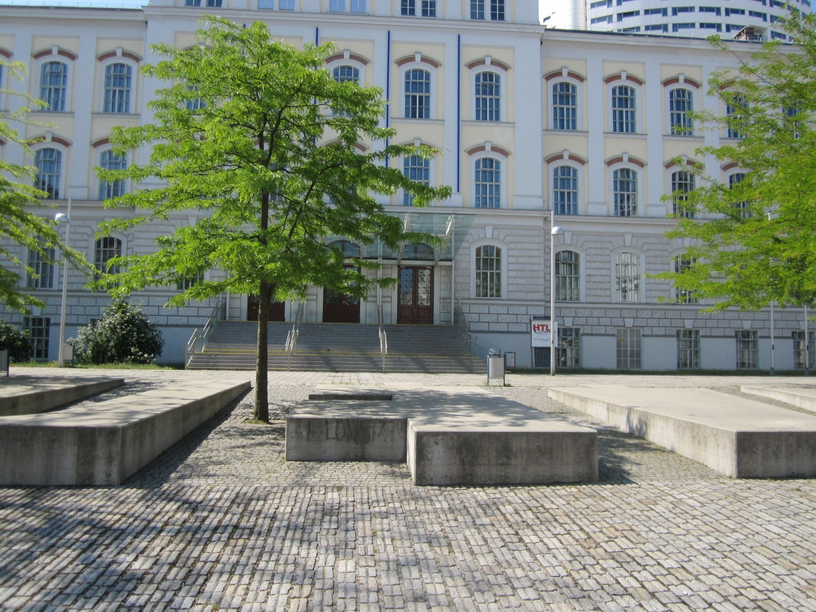 A text sculpture Jetzt (now) by Leo Zogmayer, 1998, Thaliastraße 125, Ottakring, Vienna.